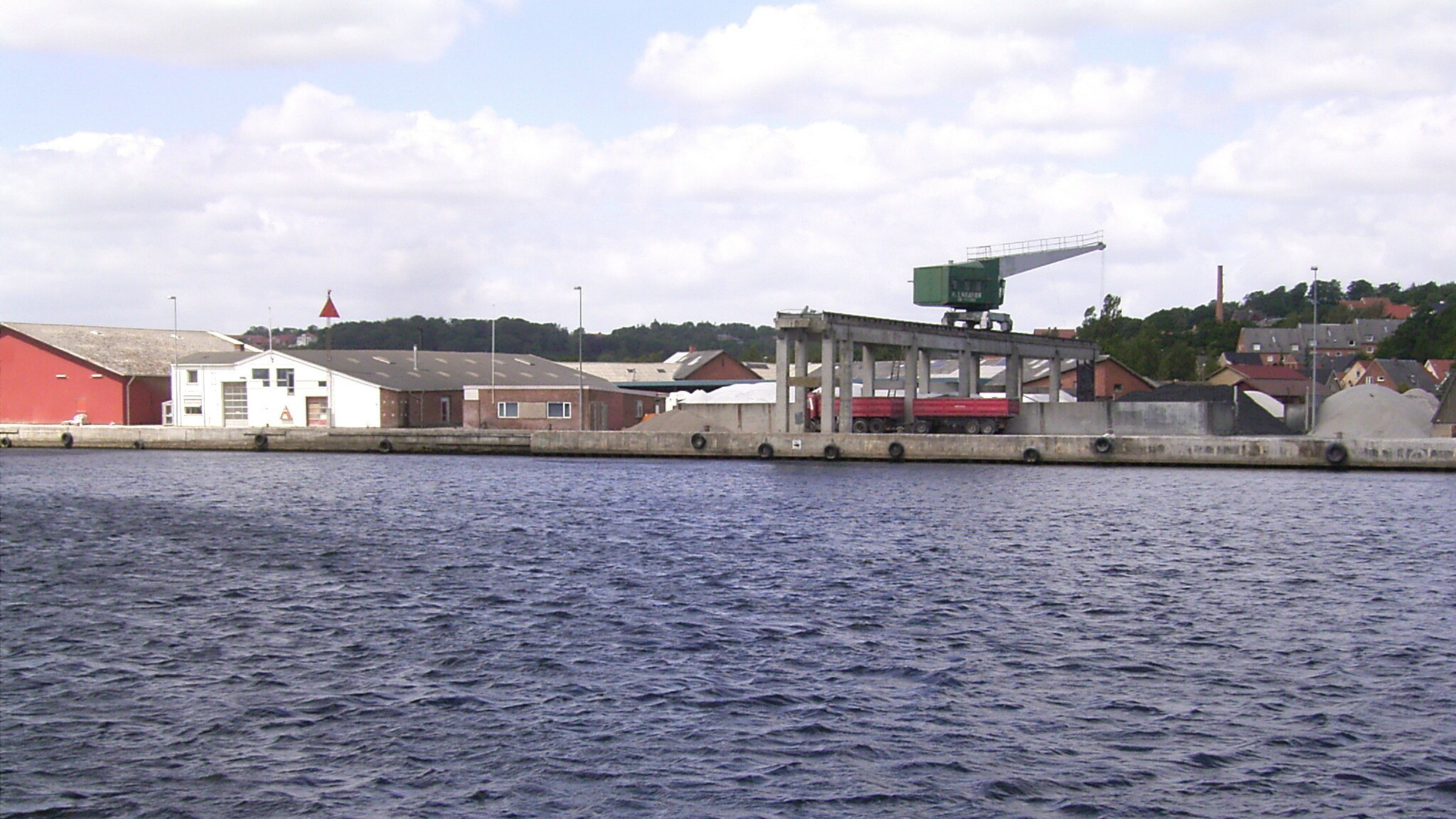 Port of Hobro